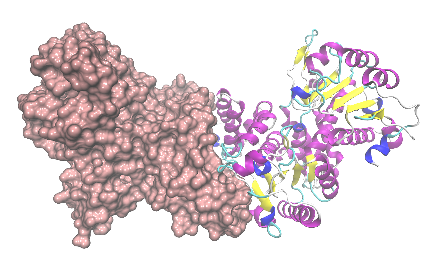 Surface/ribbon model of dimer of human NADP-dependent malic enzyme, after PDB 2aw5. Ref.: Papagrigoriou, E., Berridge, G., Smee, C., Bray, J., Arrowsmith, C., Edwards, A., Weigelt, J., Sundstrom, M., Oppermann, U., Gileadi, O., von Delft, F. To be published This 3D molecular image was created with VMD